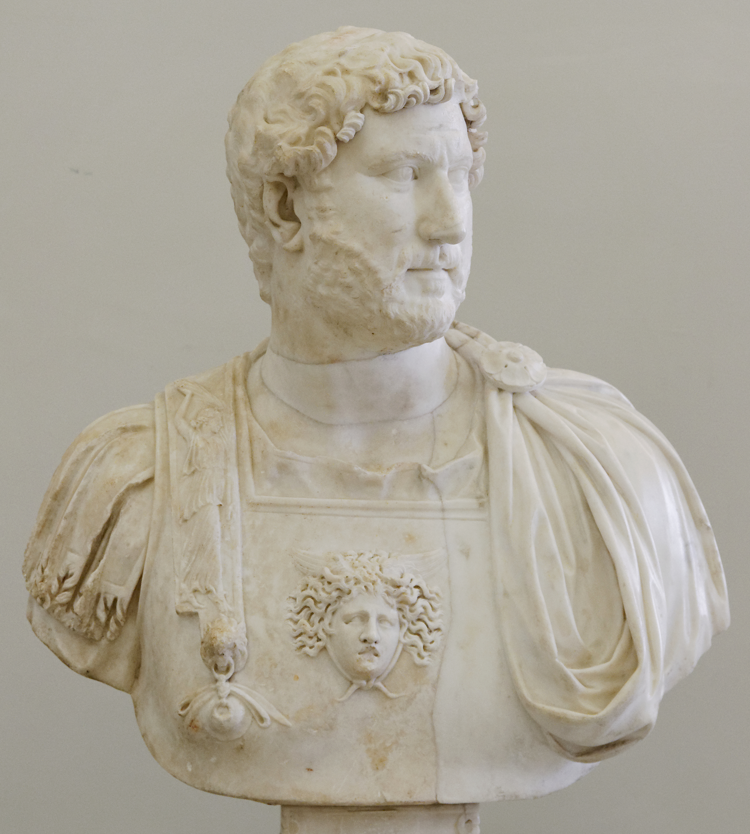 Bust of emperor Hadrian set in a bust with cuirass.